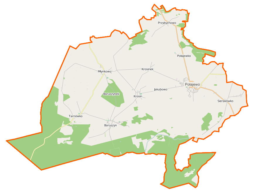 Map of Gmina Połajewo, Poland This map of Połajewo (gmina) was created from OpenStreetMap project data, collected by the community. This map may be incomplete, and may contain errors. Don't rely solely on it for navigation. Border coordinates52.859616.5094←↕→16.807052.7217